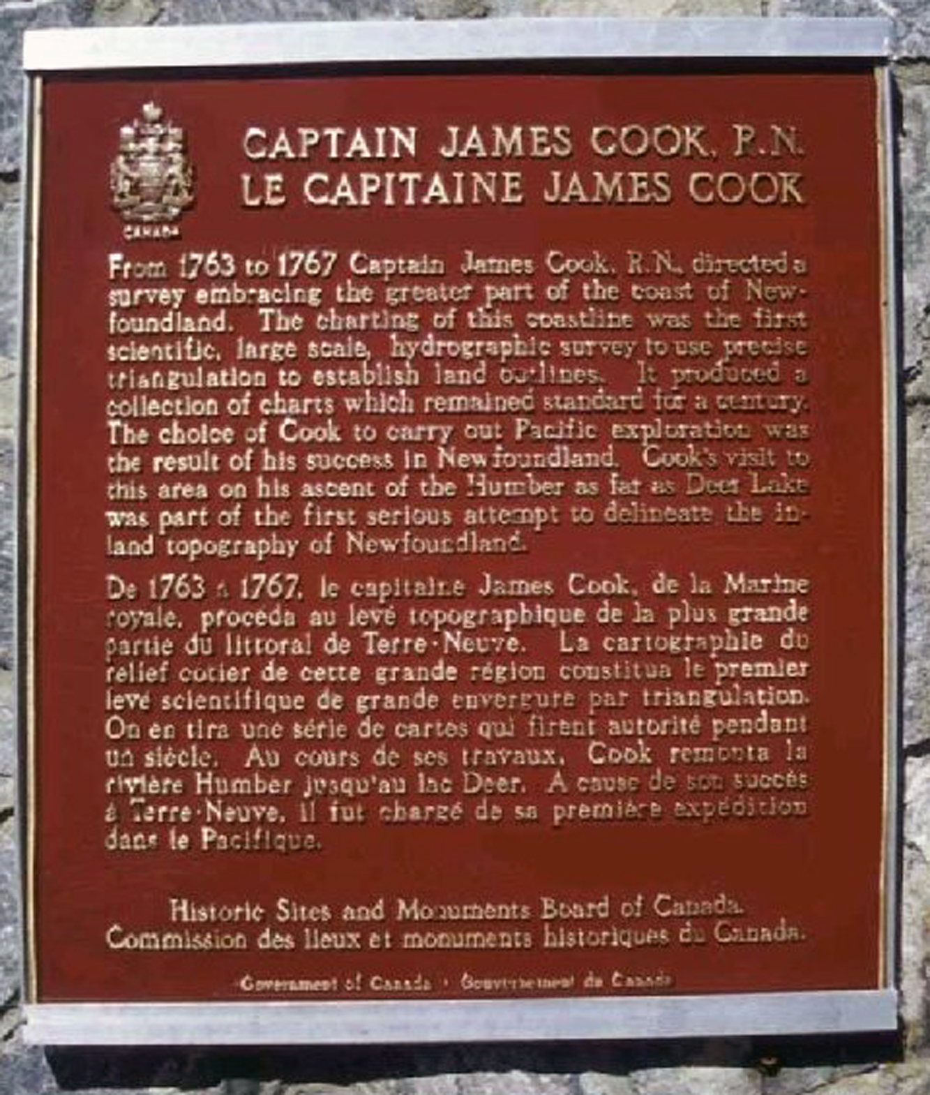 A plaque on Captain Cook's monument detailing his exploration of the Bay of Islands and surrounding area, Corner Brook, Newfoundland.